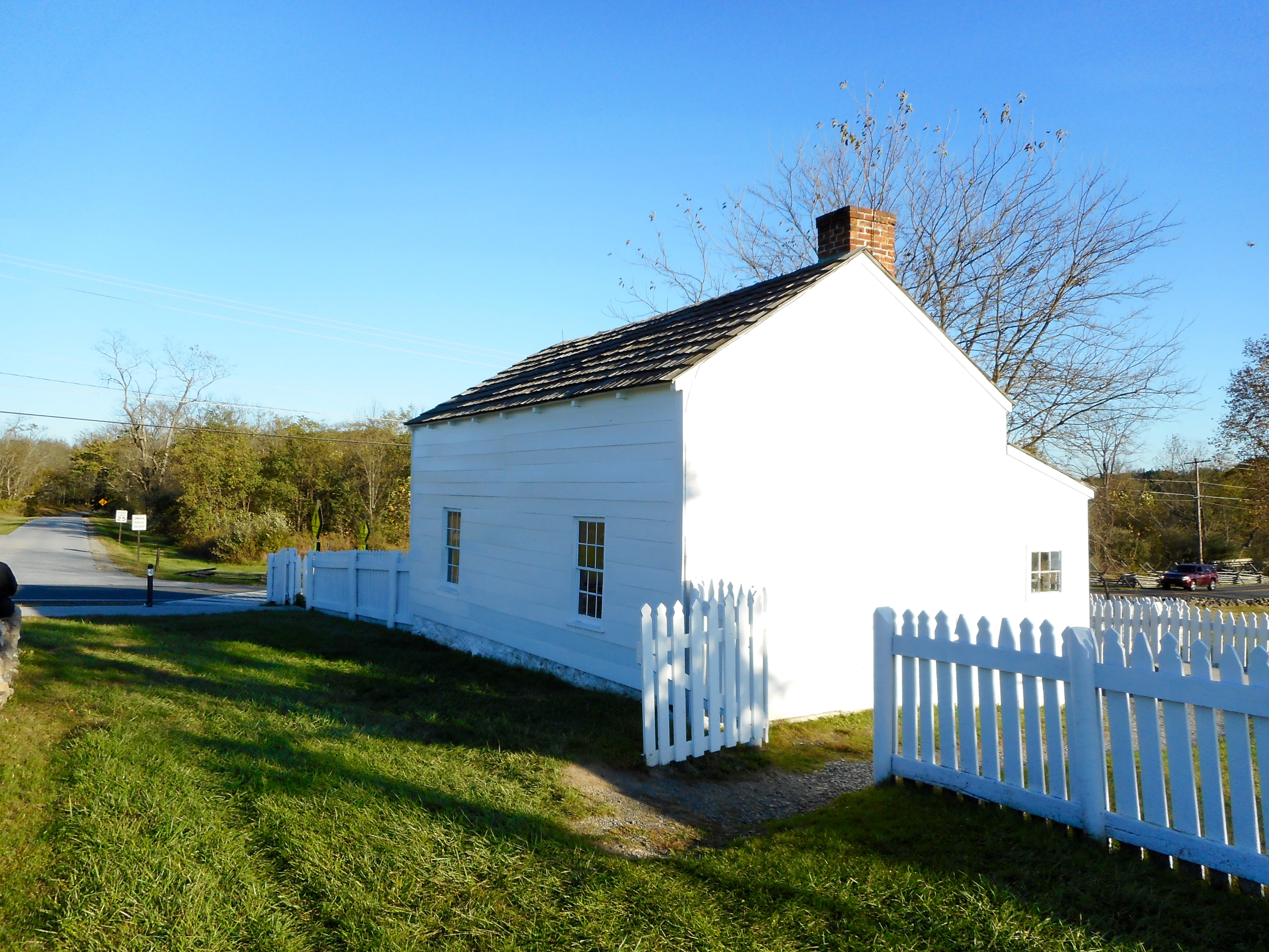 Leister farm on the Gettysburg battlefield, used as the headquarters of General George Meade